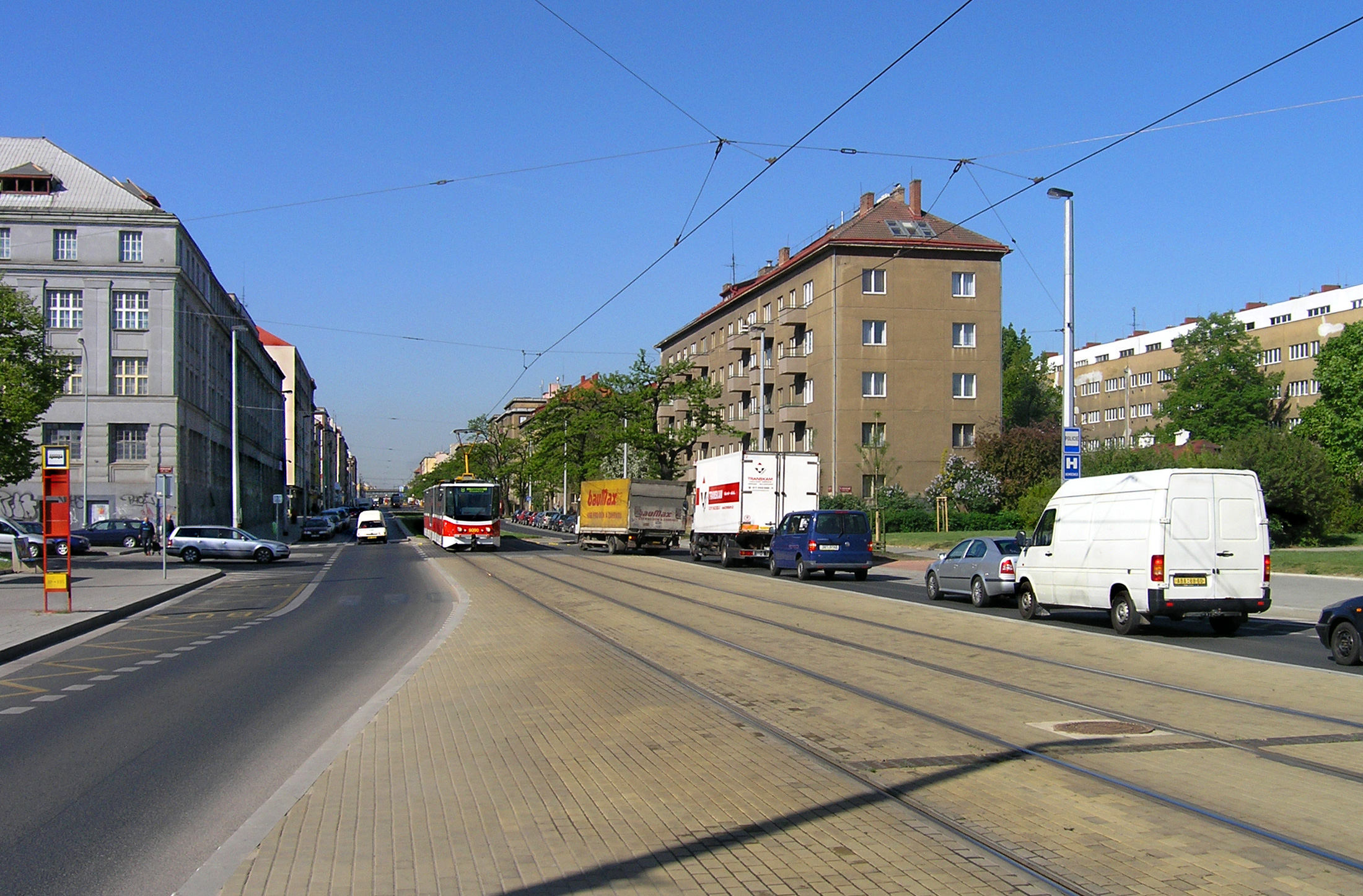 Sokolovská street at the border of Libeň and Vysočany, Prague